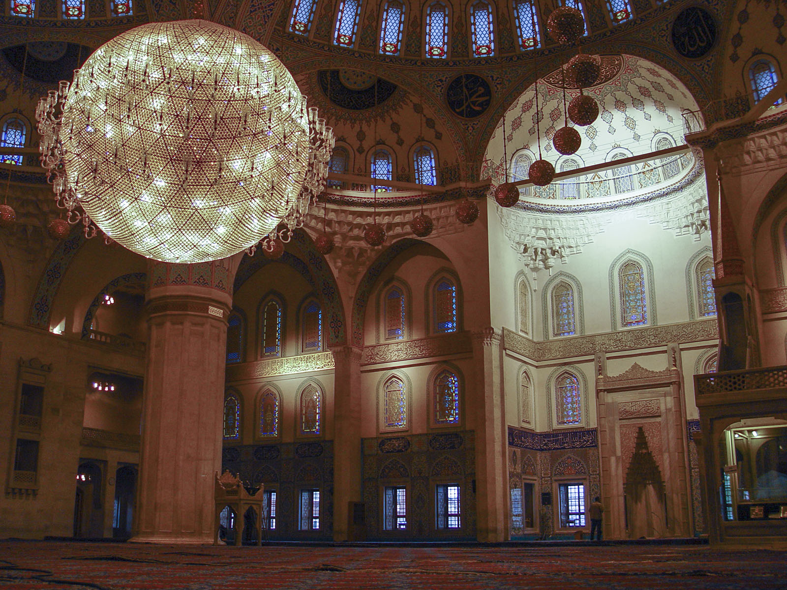 In mosques one may often see decorative lights, but the way these are constructed and hung is definitely special. Taken as evening was approaching in a partly lit mosque.